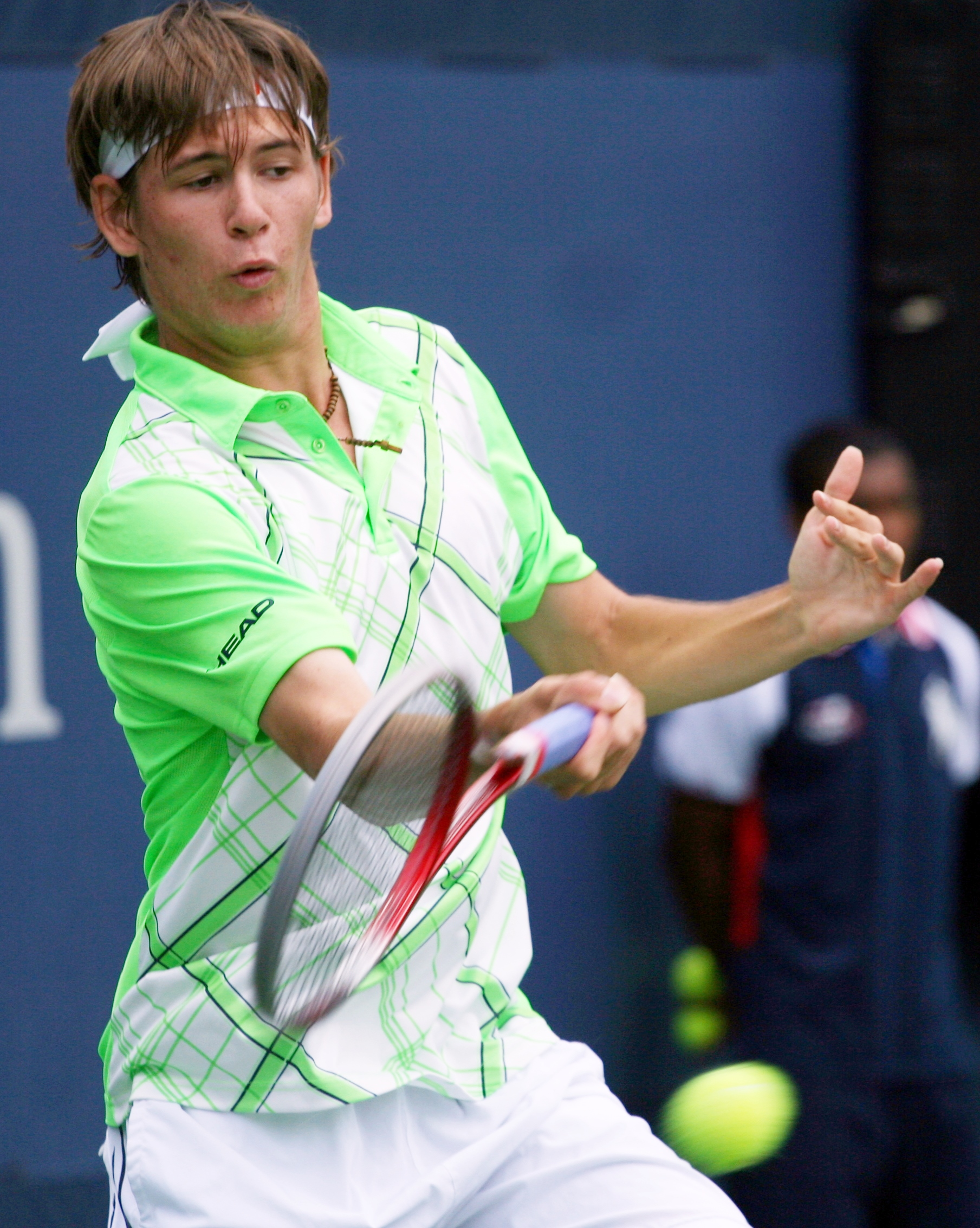 U.S. Open Juniors Monday, Sept. 2, 2013